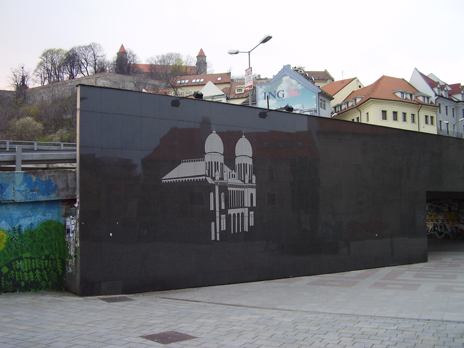 Bratislava city centre